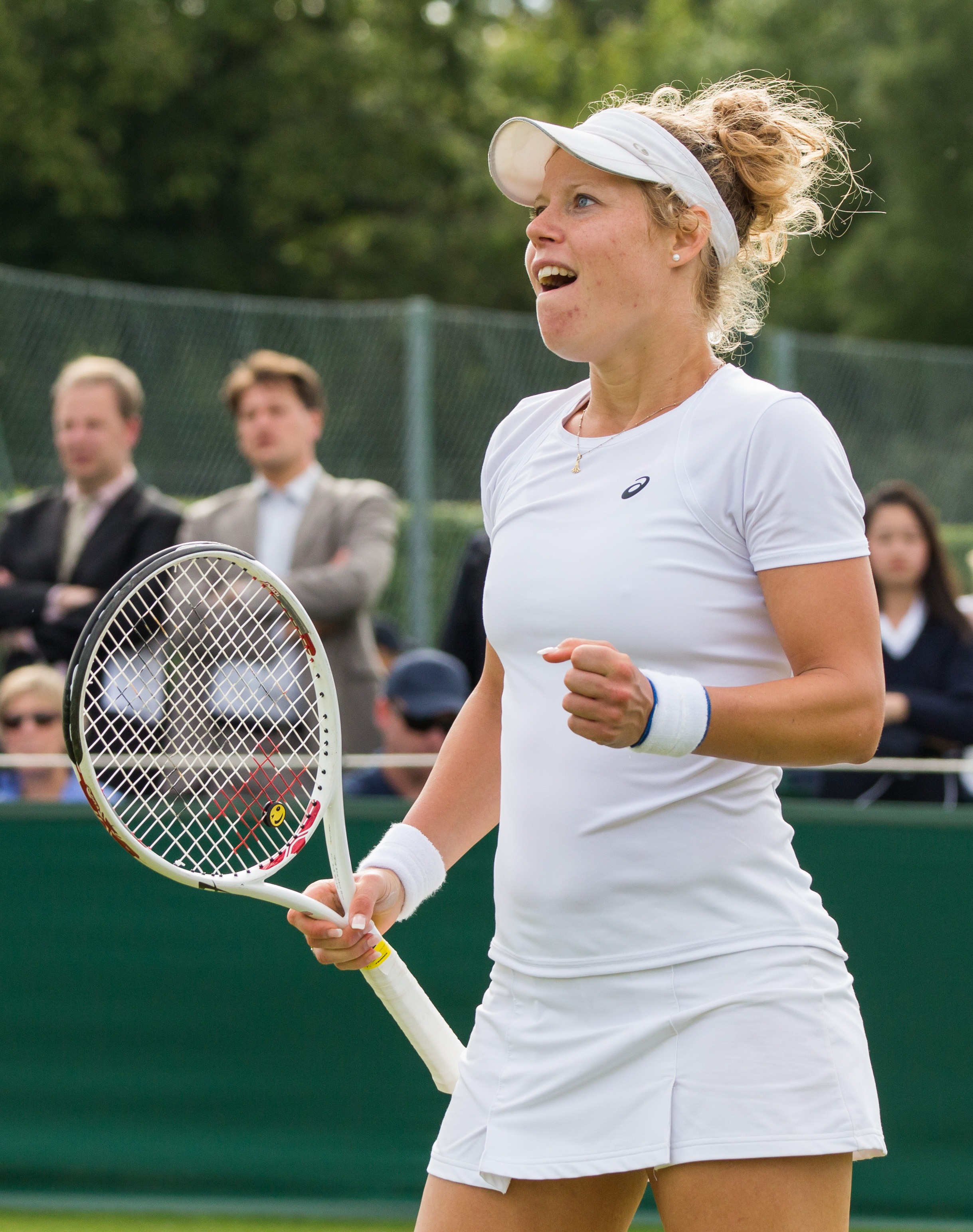 Laura Siegemund competing in the first round of the 2015 Wimbledon Qualifying Tournament at the Bank of England Sports Grounds in Roehampton, England. The winners of three rounds of competition qualify for the main draw of Wimbledon the following week.